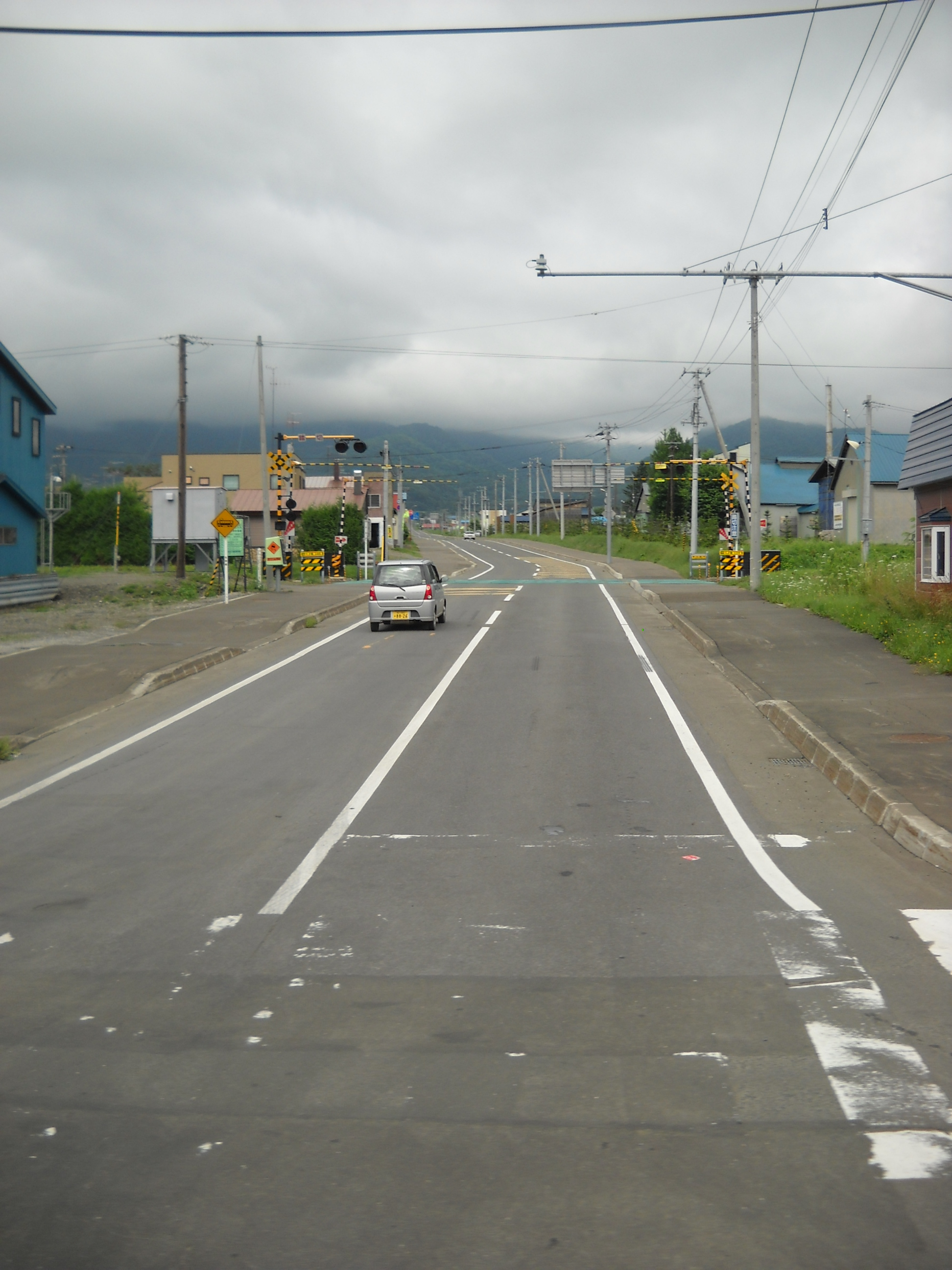 Hokkaido prefectural road route706, Furano, Hokkaido, Japan